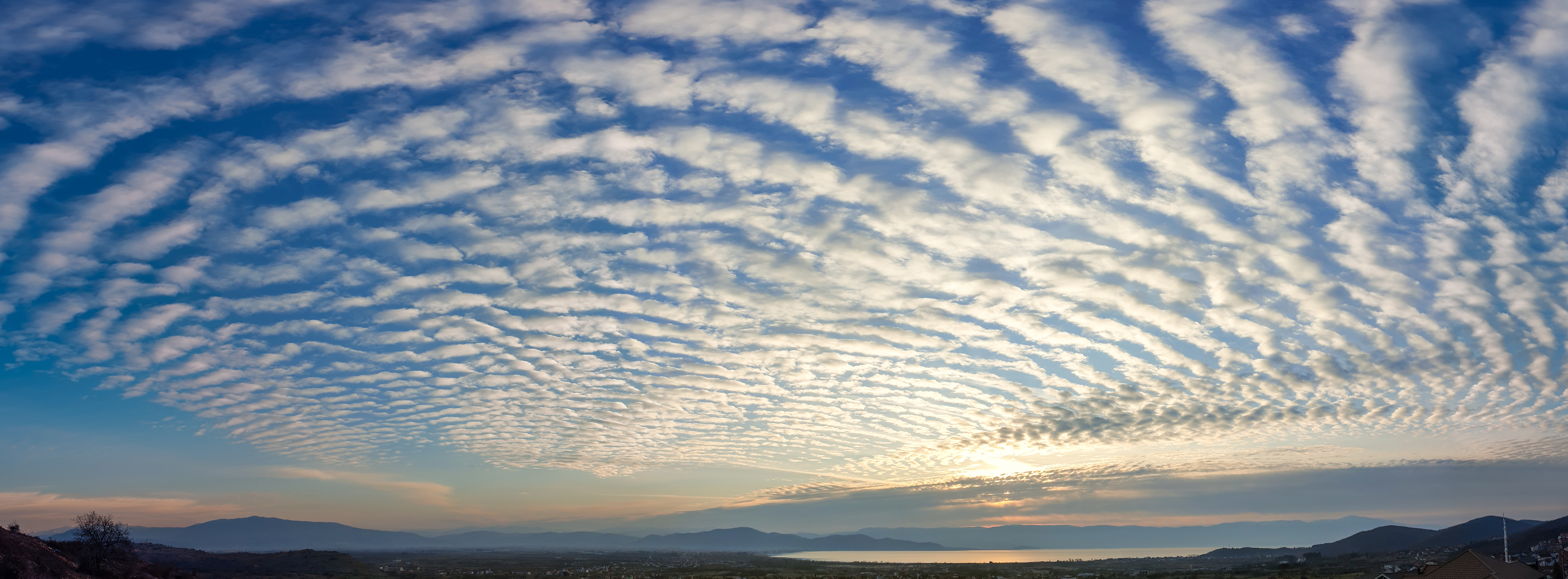 Dawn Altostratus undulatus cloud in Struga